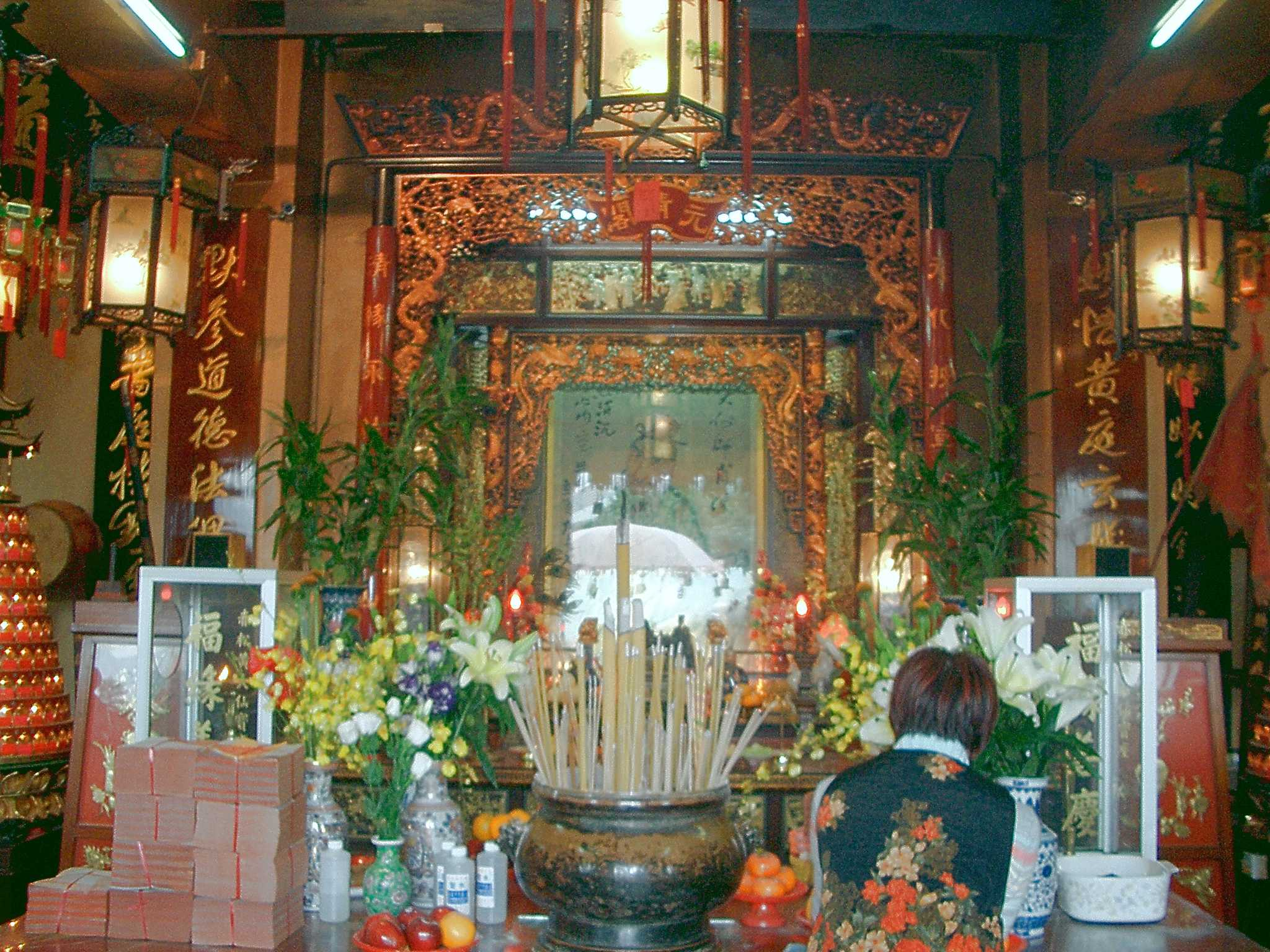 Wong Tai Sin Altar, Yuen Ching Kwok, Ching Cheung Road, Hong Kong